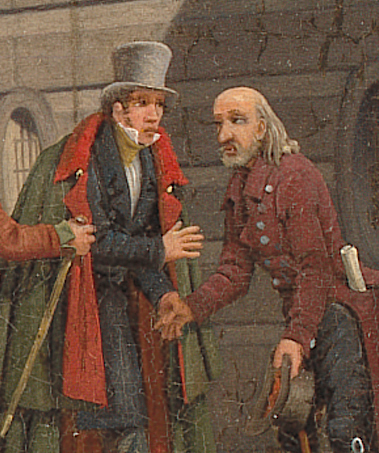 Part of Martinus Rørbye's painting 'The prison of Copenhagen' with a moneylender.